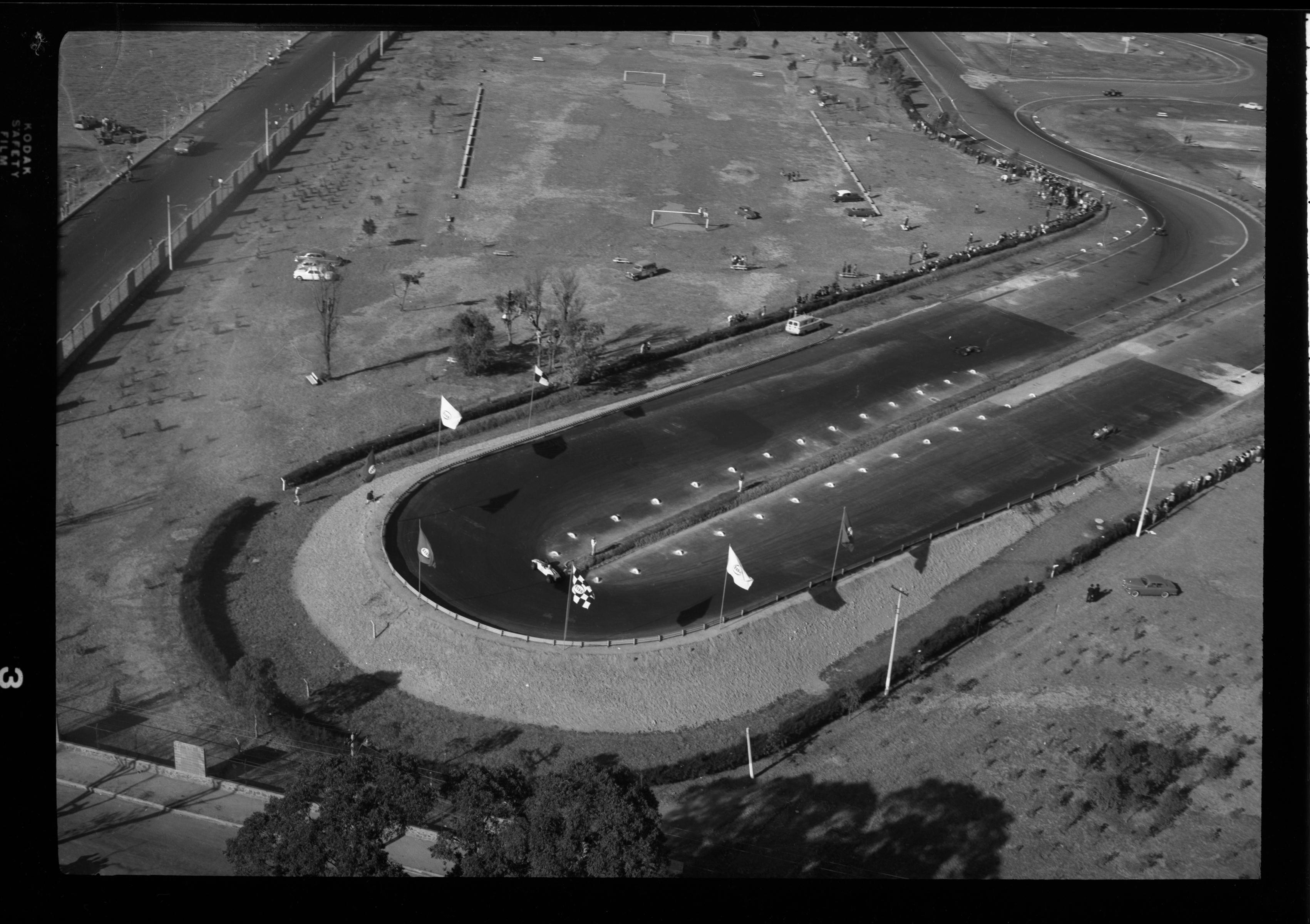 Aerial photo of the Autódromo Hermanos Rodríguez "horquilla" curve, Mexico City, Mexico.